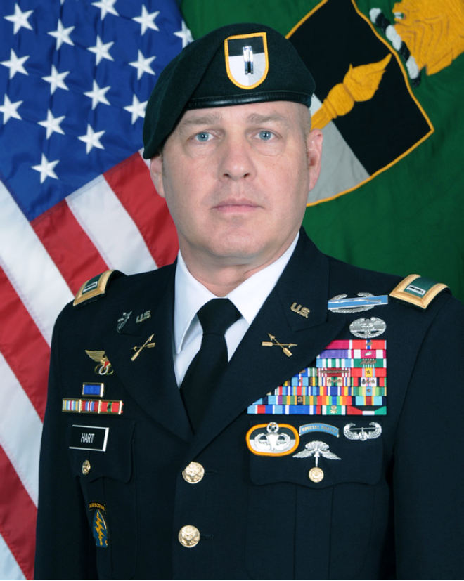 Chief Warrant Officer 5 Robert W. Hart, Command Chief Warrant Officer of the U.S. Army Special Operations Center of Excellence